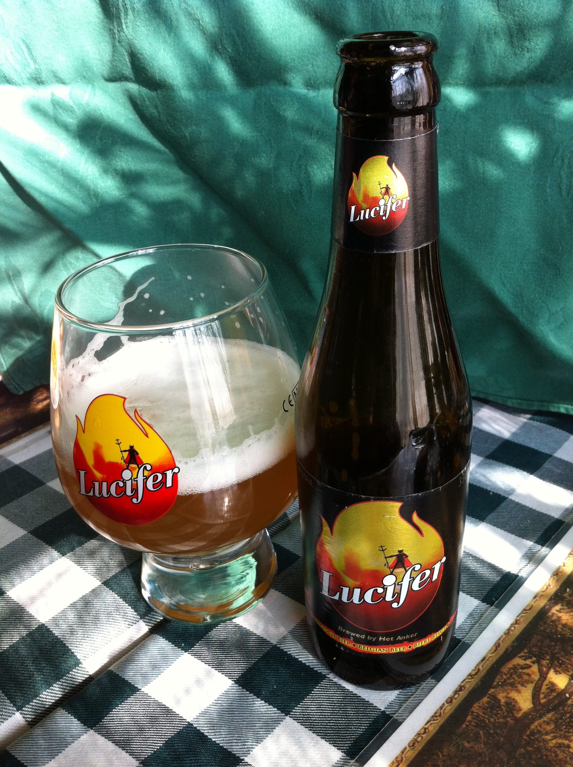 Lucifer beer bottle with glass